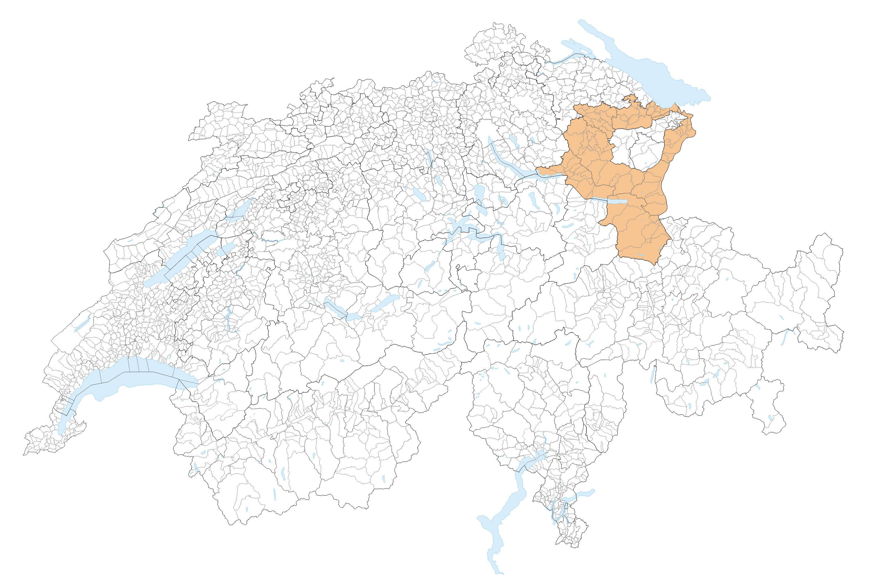 Kanton Sankt Gallen